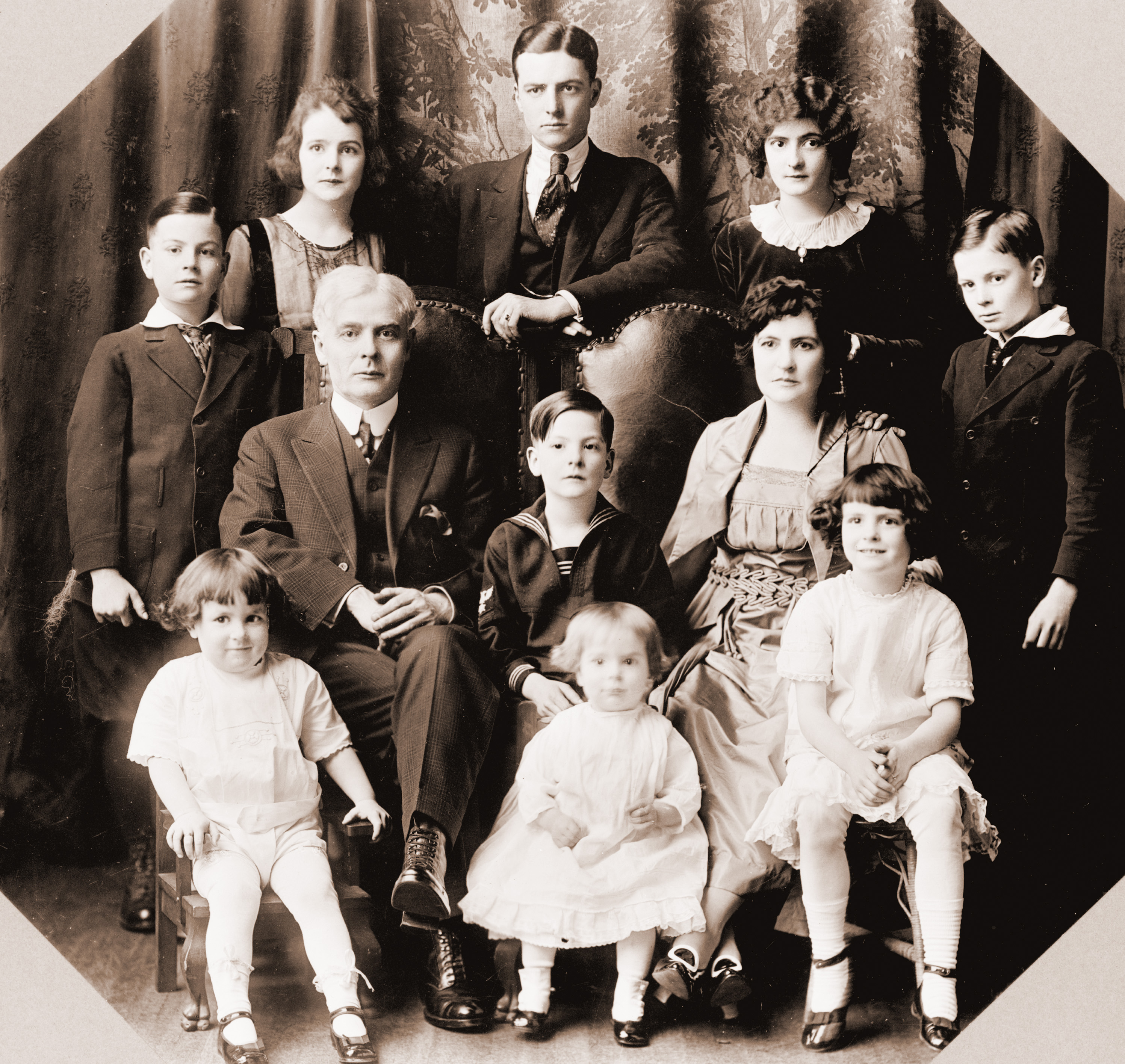 Ole Hanson (1874-1940), mayor of Seattle and founder of San Clemente, CA and family.